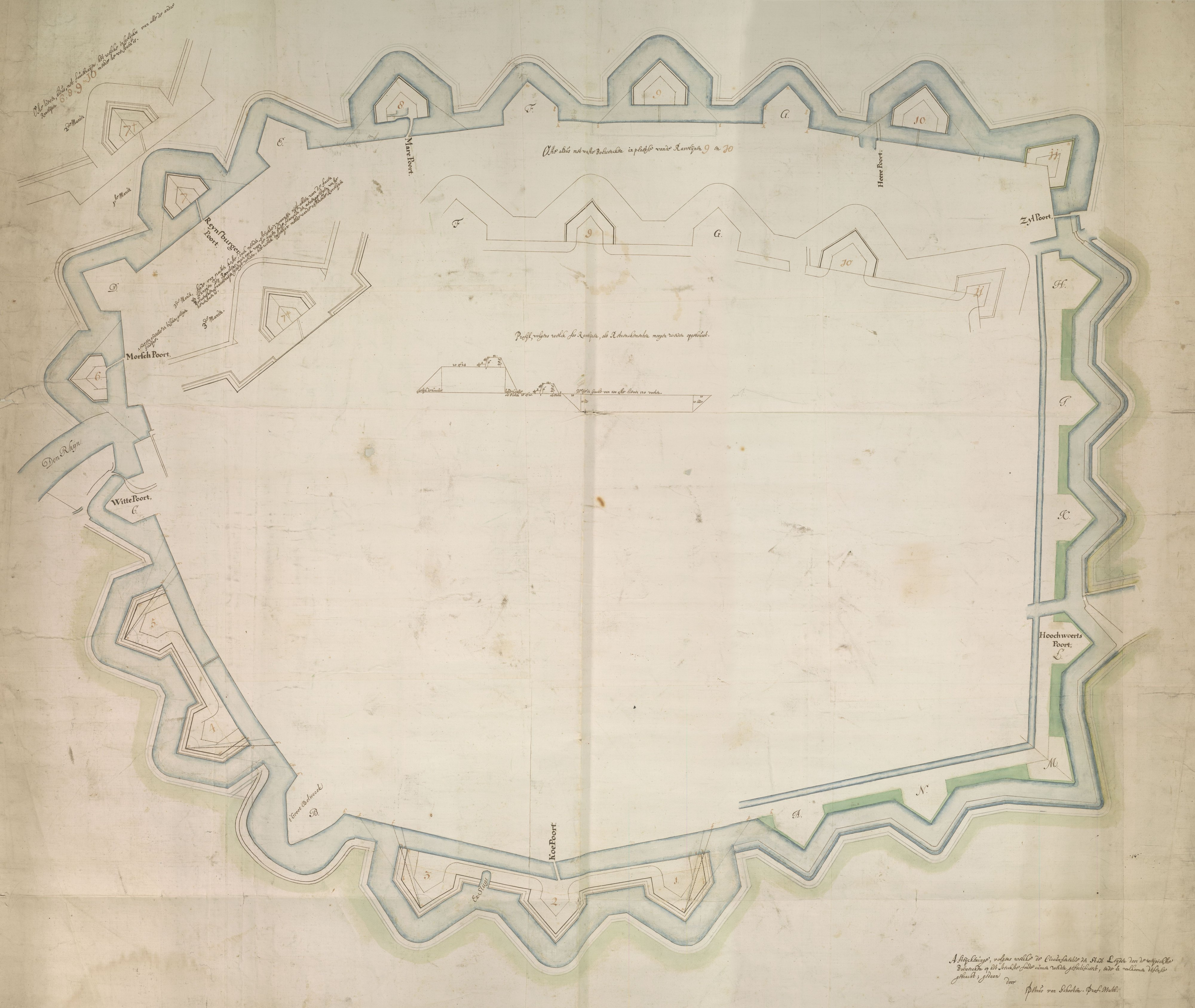 Fortificaties van Leiden door Pieter van Schooten